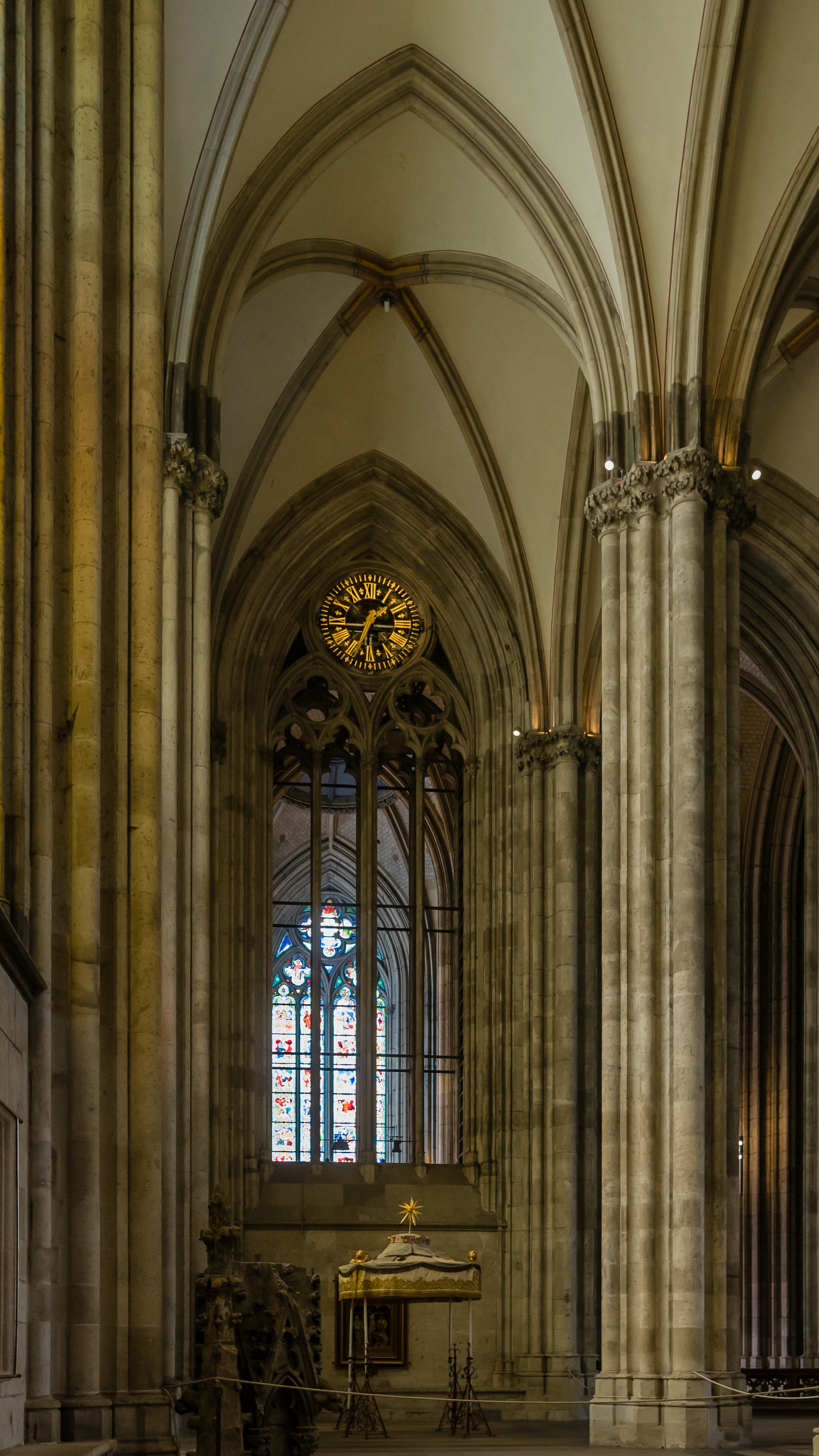 Cologne, Germany: Clock of Cologne Cathedral. It is "hidden" in the west corner of the southern nave.